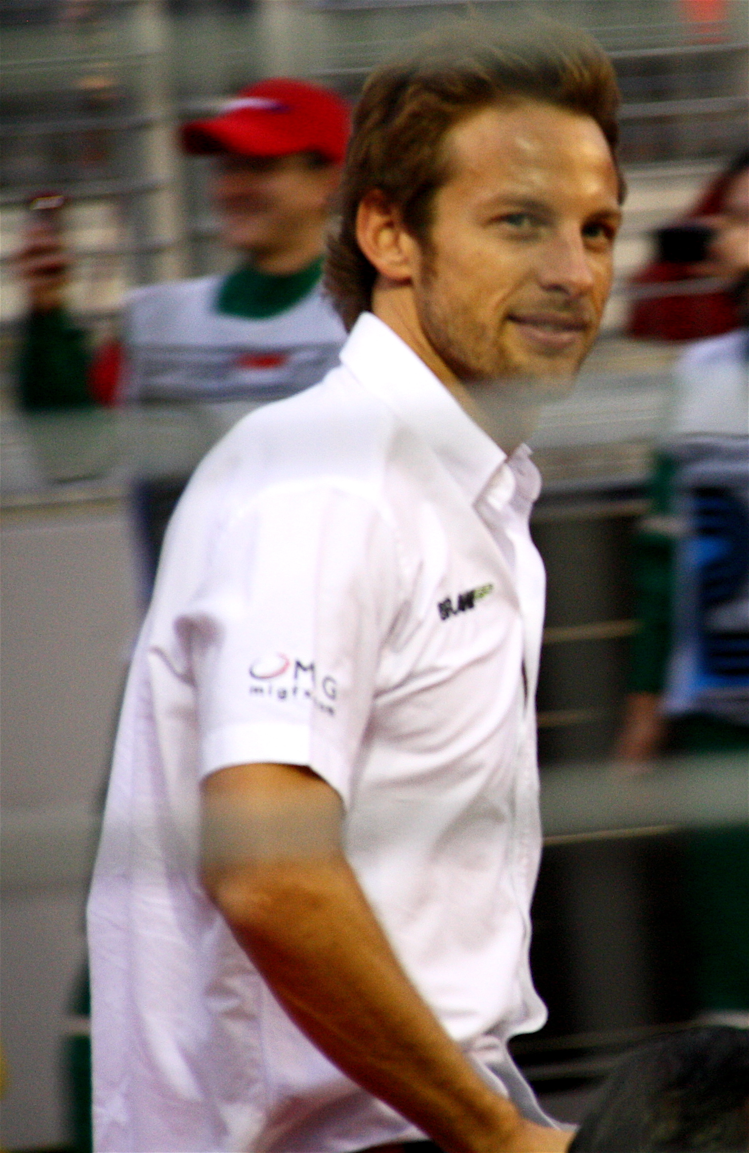 Jenson Button at the 2009 Singapore GP